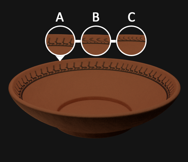 Stylistic depictions of the Togau ware found at Mehrgarh shows how the Mehrgarh people moved towards a mass-production model for their pottery ware.